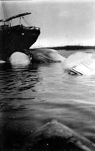 On verso of image: Alaska-whaling. Dead whales at the station, The Tyee Co. Subjects (LCTGM): Whales--Alaska--Tyee Subjects (LCSH): Tyee Company; Whaling--Alaska--Tyee; Dead animals--Alaska--Tyee; Whaling ships--Alaska--Tyee; Whaling stations--Alaska--Tyee